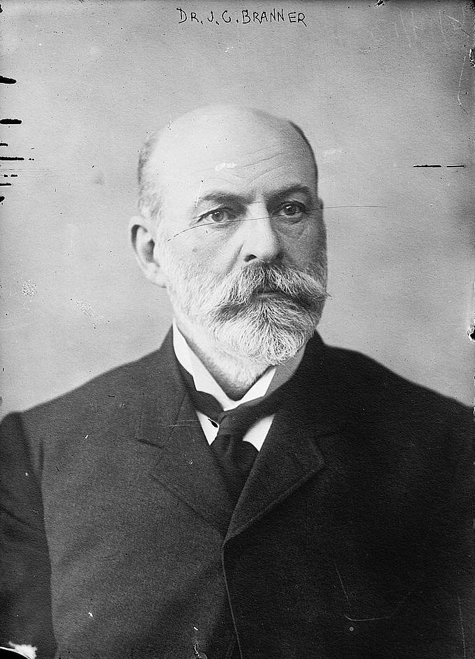 Bain News Service, publisher. Dr. J. C. Branner circa 1913. [no date recorded on caption card] 1 negative : glass ; 5 x 7 in. or smaller. Notes: Title from unverified data provided by the Bain News Service on the negatives or caption cards. Forms part of: George Grantham Bain Collection (Library of Congress). Format: Glass negatives. Repository: Library of Congress, Prints and Photographs Division, Washington, D.C. 20540 USA, General information about the Bain Collection is available at Persistent URL: Call Number: LC-B2- 2714-6